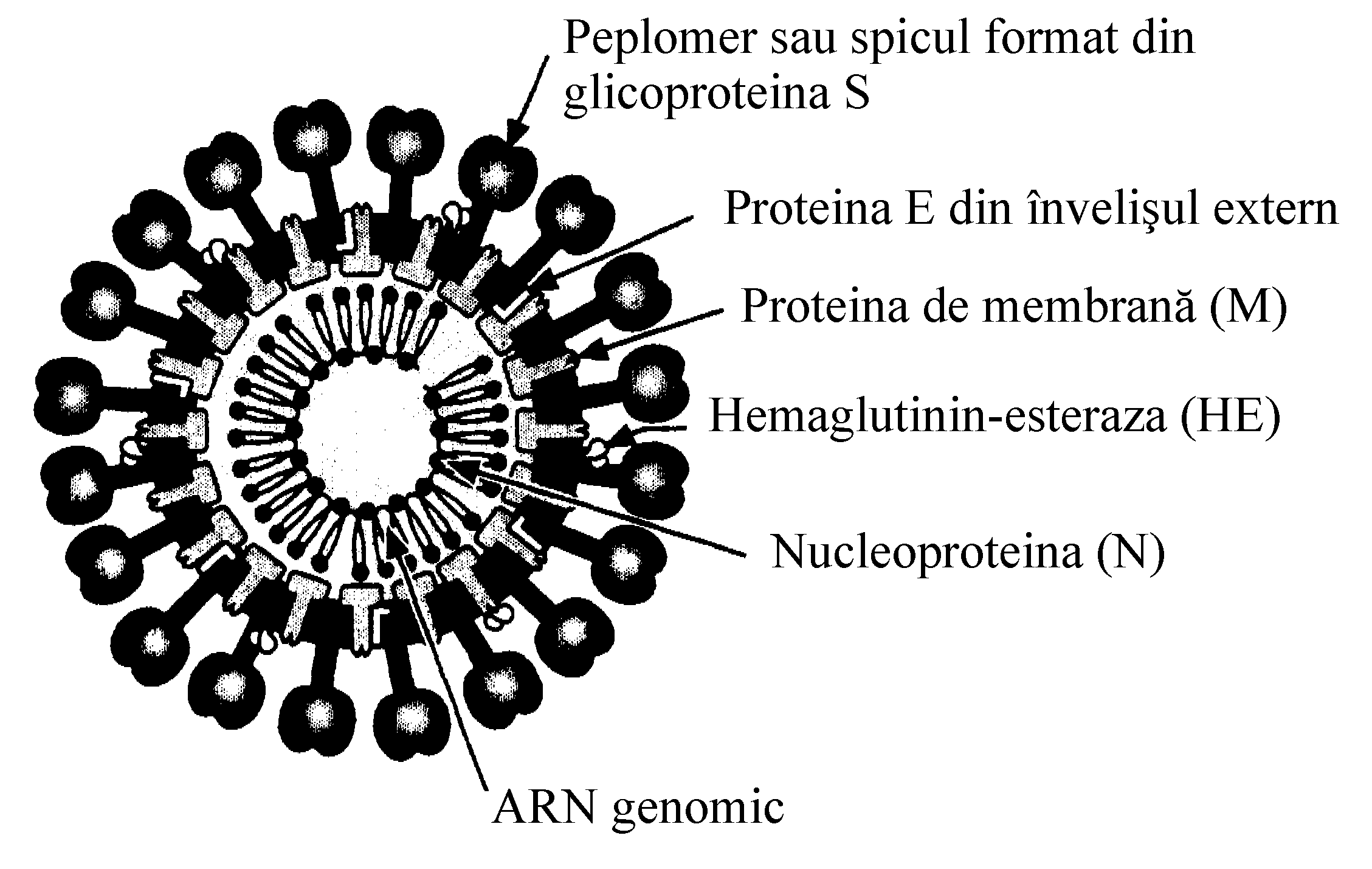 Coronavirus